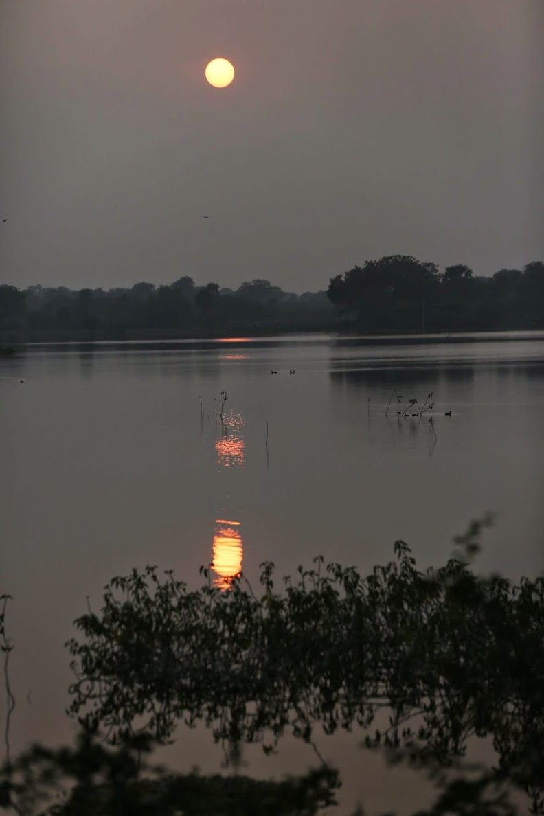 Sunset near shambuni cheruvu